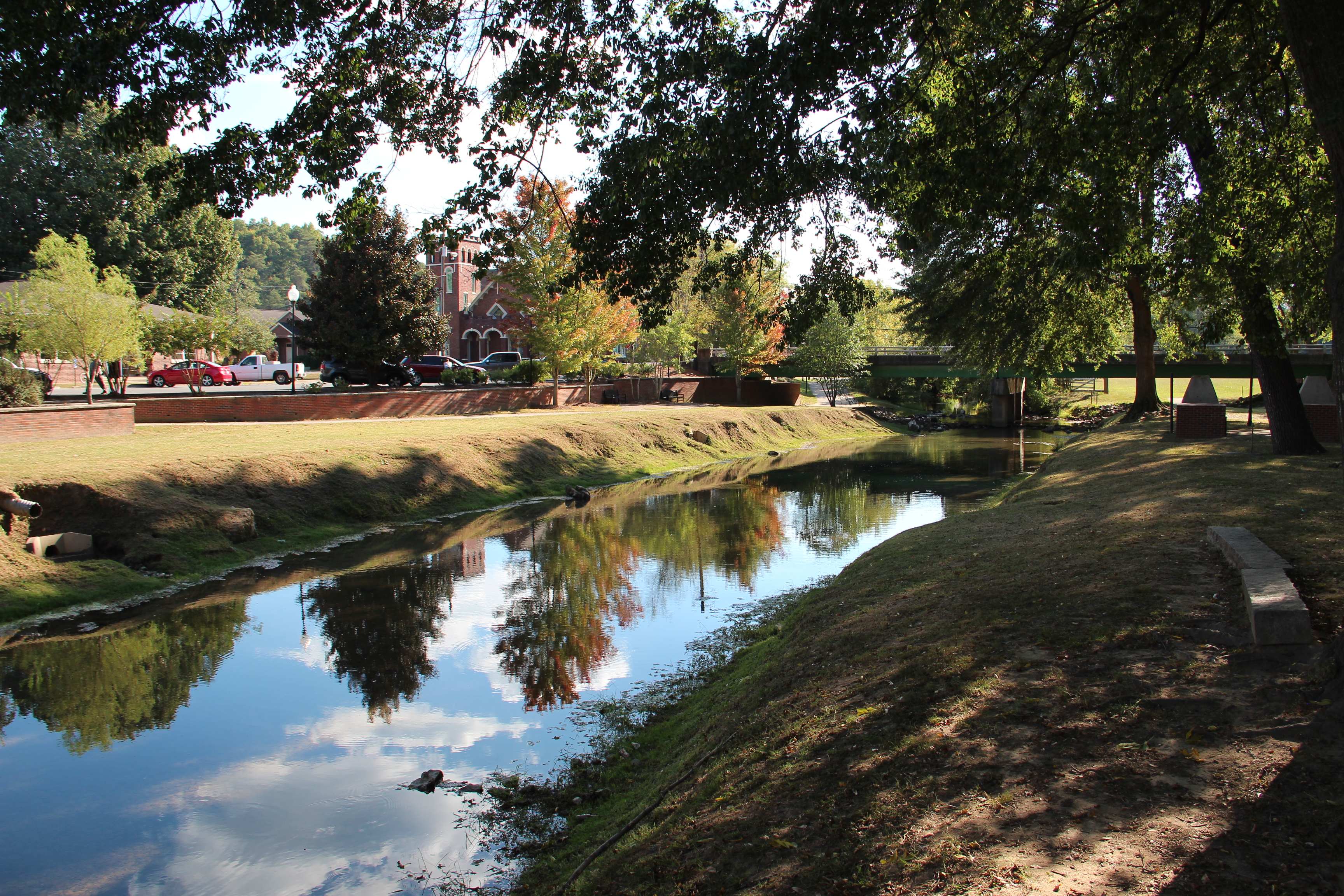 Euharlee Creek in Rockmart, October 2016